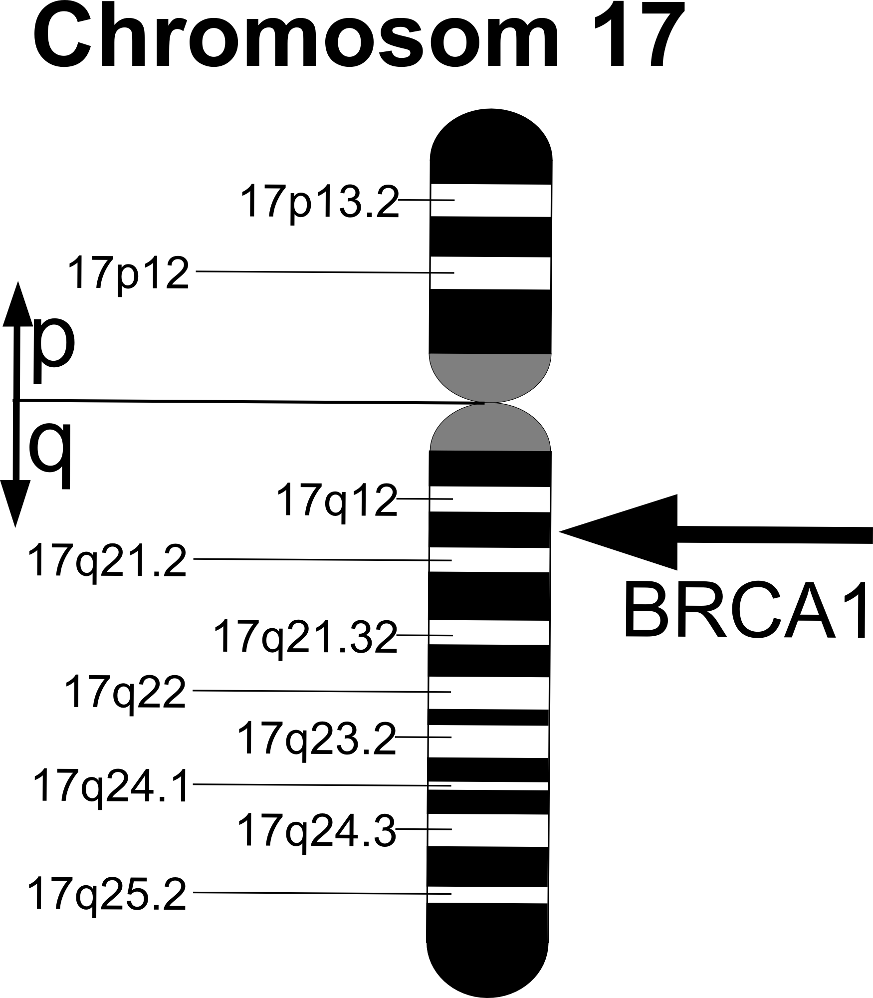 BRCA1-Gene located on chromosome 17. German version